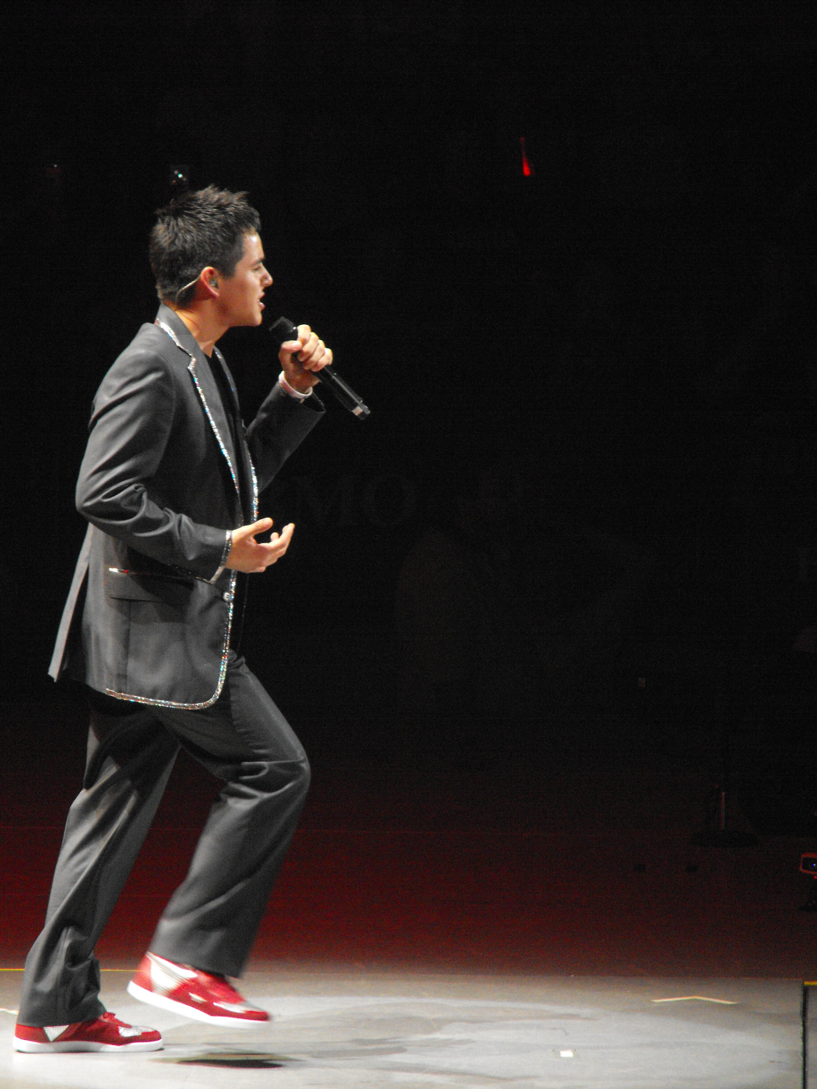 I am the originator of this photo. I hold the copyright. I release it to the public domain. This photo depicts the American singer David Archuleta performing during American Idol's season 7 tour.